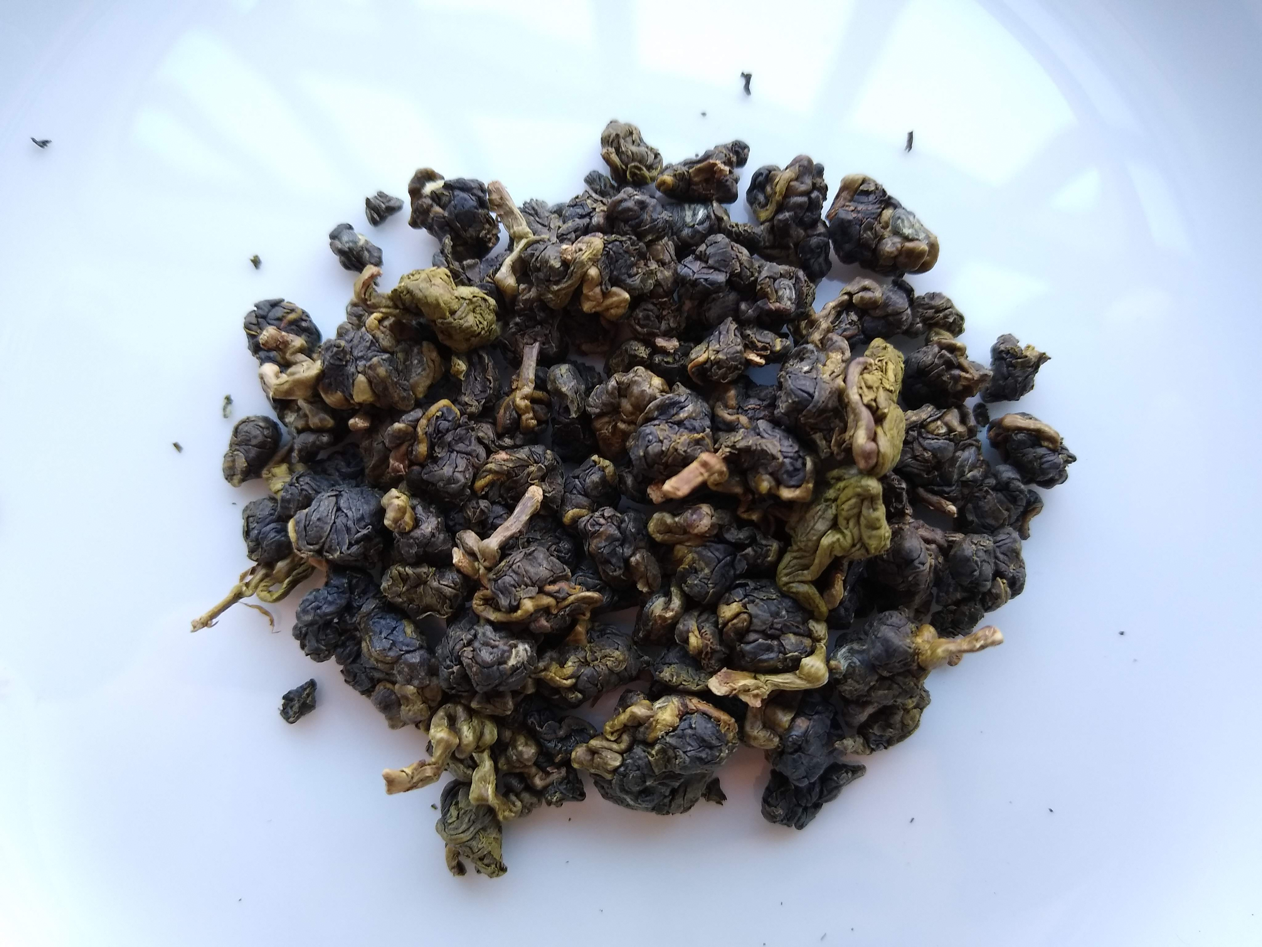 Taiwanese Gaoshan tea, bought in Danshui (Tamsui 淡水).